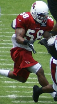 Daryl Washington in 2012 training camp